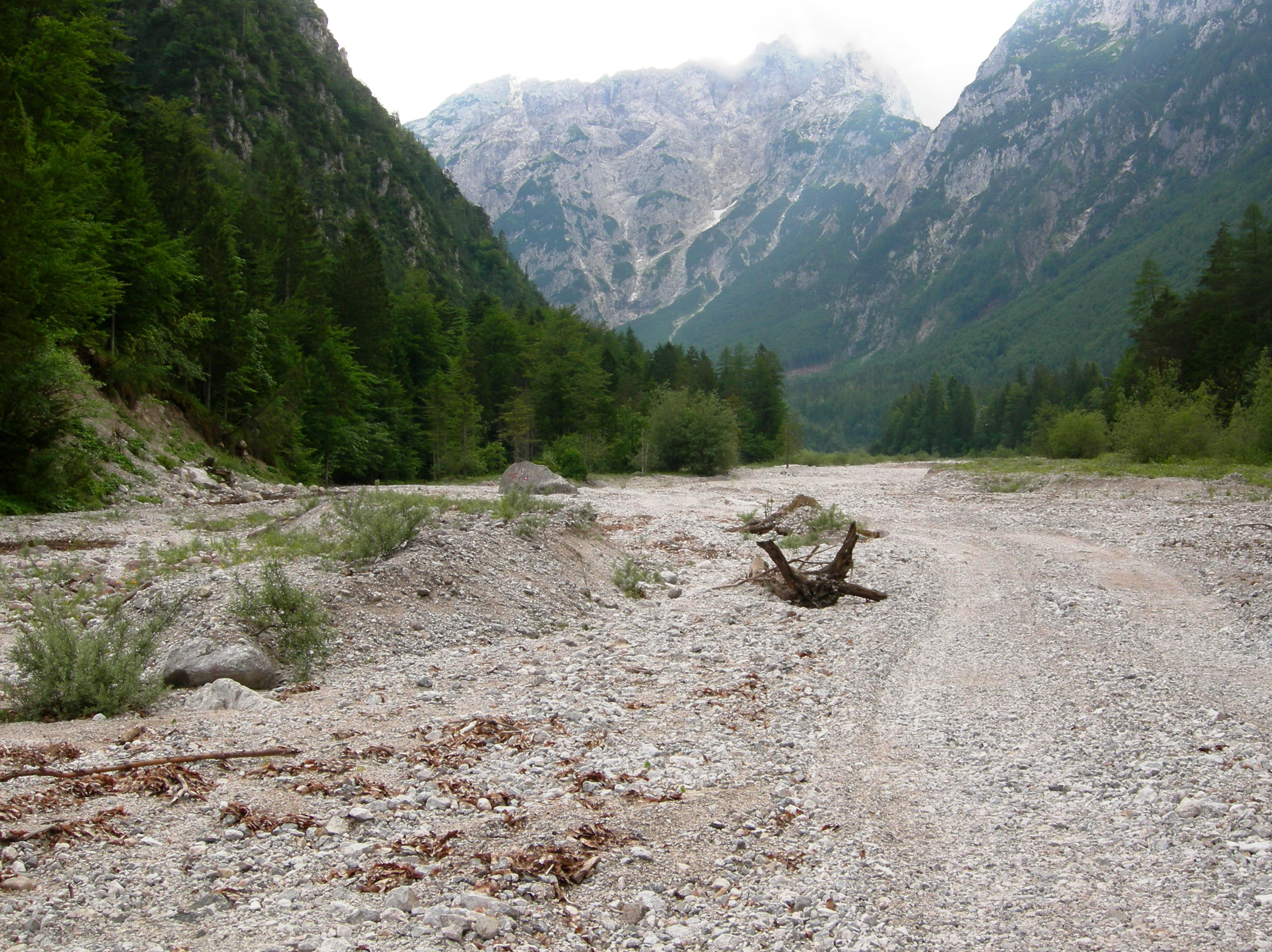 Roban Valley in northern Slovenia formed through glacial activity during the last Ice Age, which left a number of traces including some vast moraine deposits.